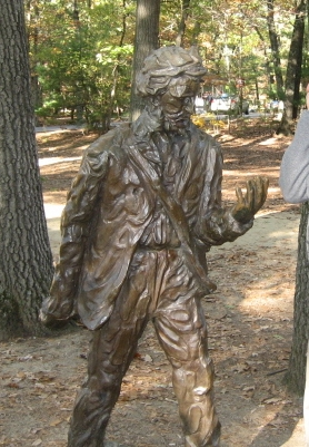 Henri Thoreau Memorial near his house in Walden